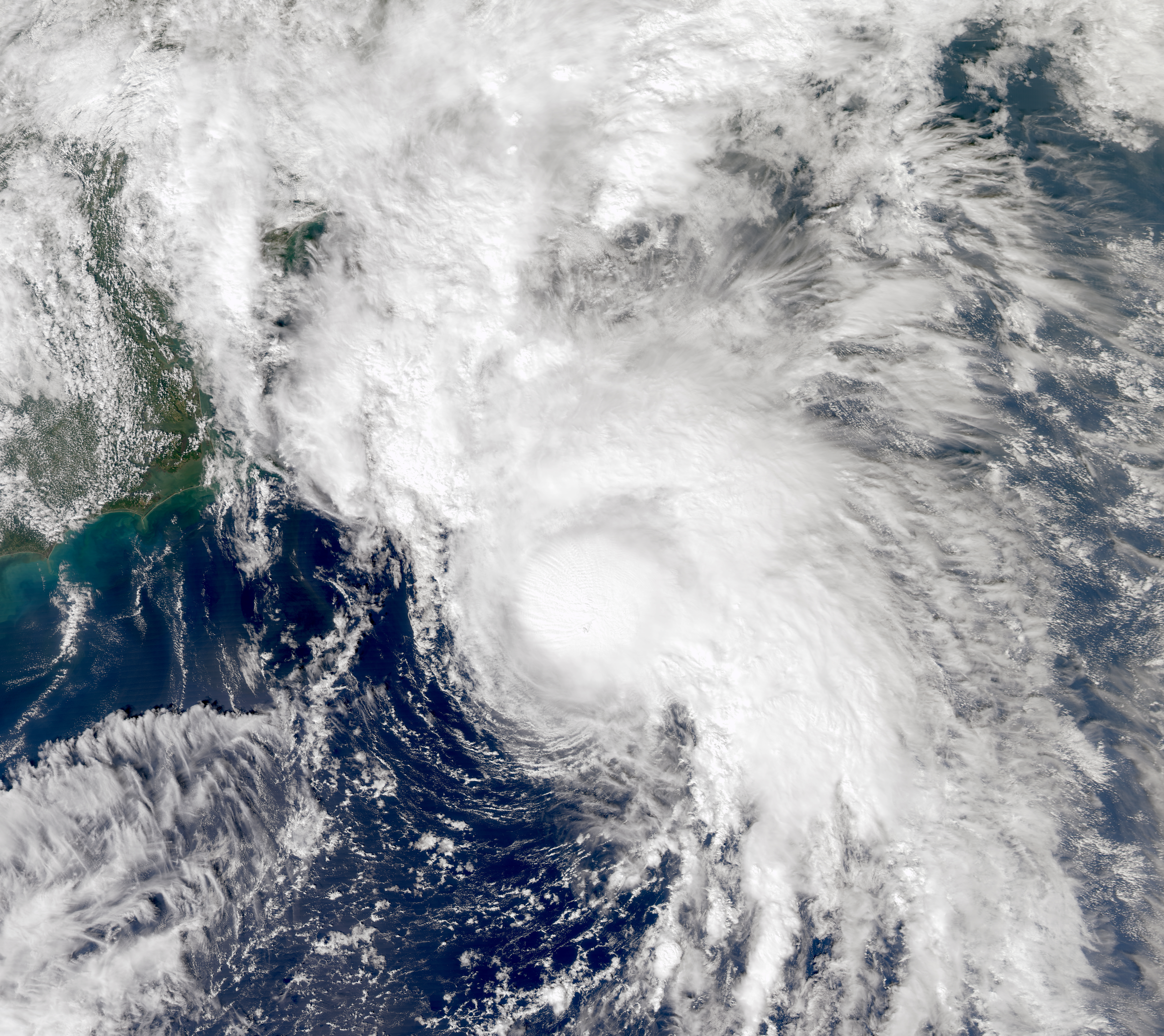 Hurricane Kyle (2008) on September 28, 2008.